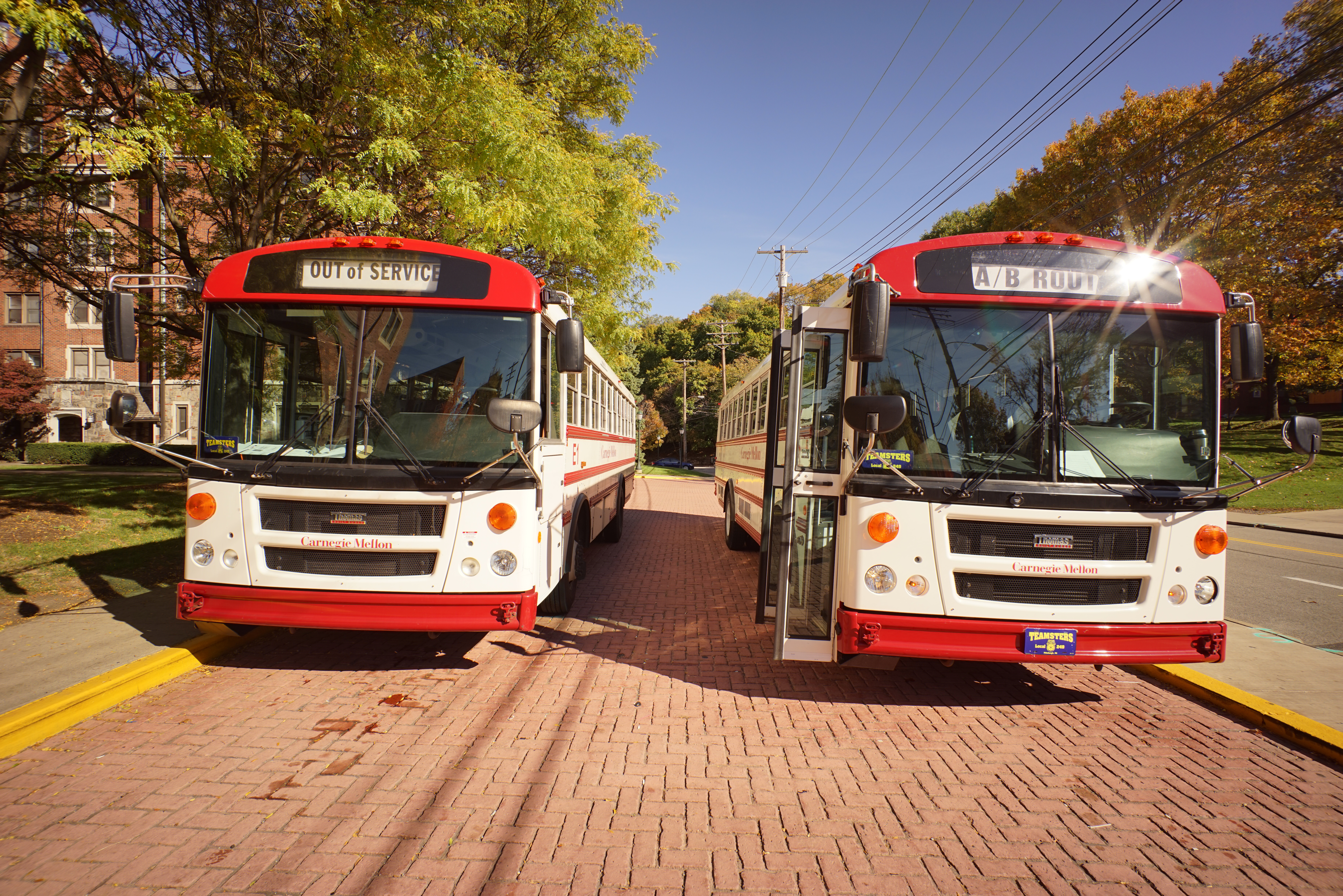 Thomas Saf-T-Liner shuttle buses operated by Carnegie Mellon University in Pittsburgh.